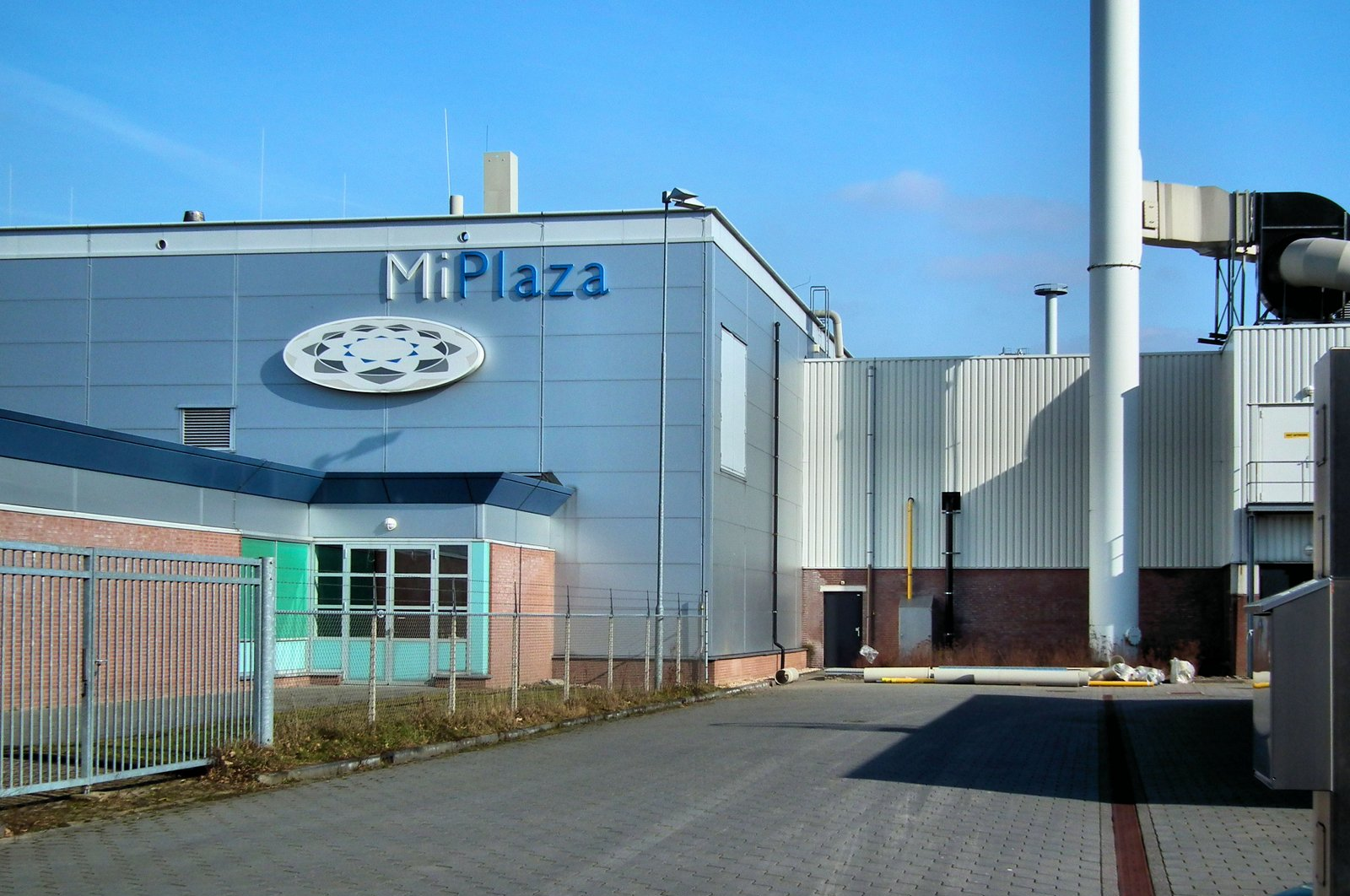 High Tech Campus Eindhoven (The Netherlands) - The smartest place on earth. This picture is presented to you by